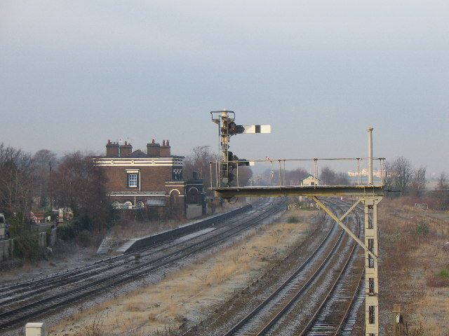 Holywell Junction station. Looking northwest from the road overbridge, the station building of the now disused Holywell Junction station is to the left of the main rail line to Holyhead. The overgrown bay platform to the extreme left was the terminus of the short branch line to Holywell Town.